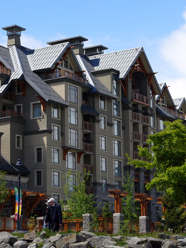 Whistler, B.C.